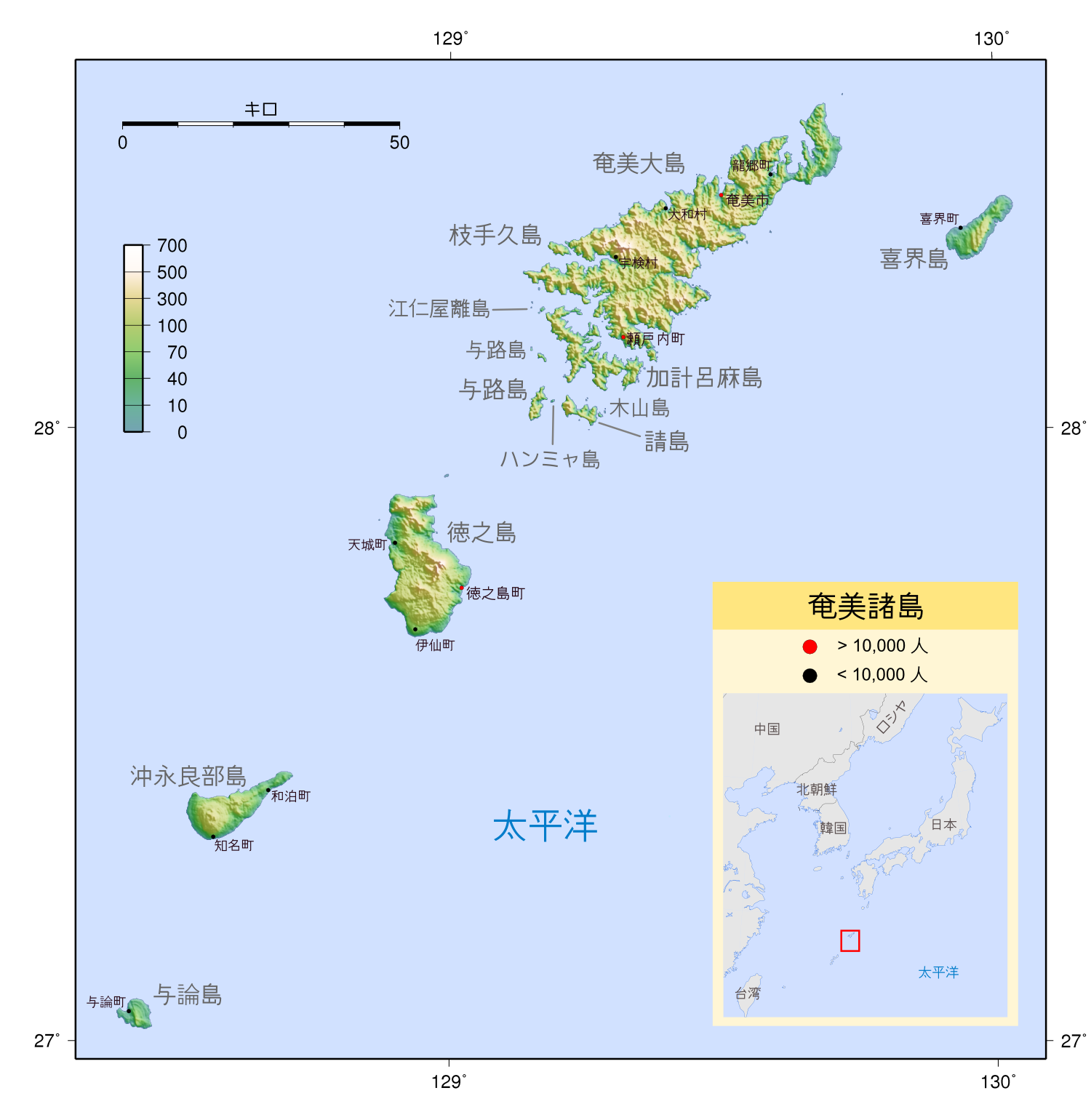 Topographic map of the Amami Islands (Japanese version)